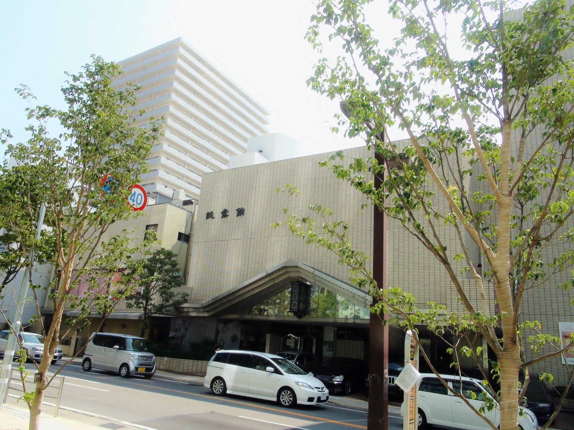 Hotel Danrokan Kofu City